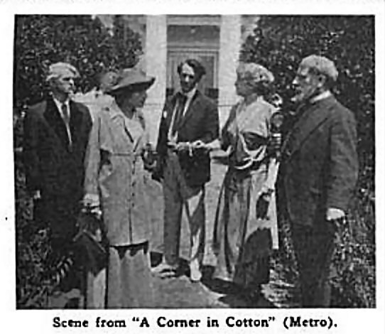 Scene from A Corner in Cotton (1916). From the left: Frank Bacon, Marguerite Snow, Wilfred Rogers, Helen Dunbar, and William Clifford.